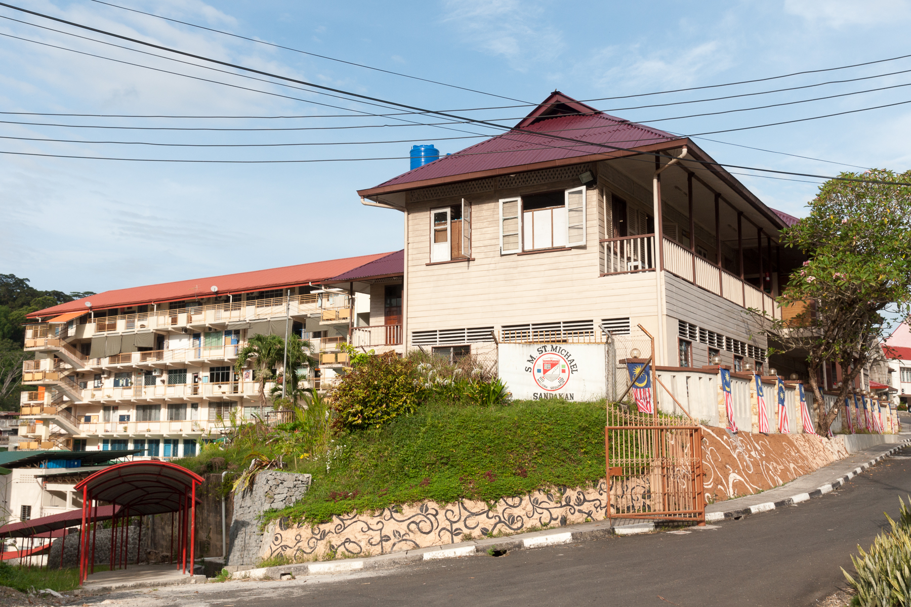 Sandakan, Sabah: St. Michael’s Secondary School (SM St. Michael Sandakan)